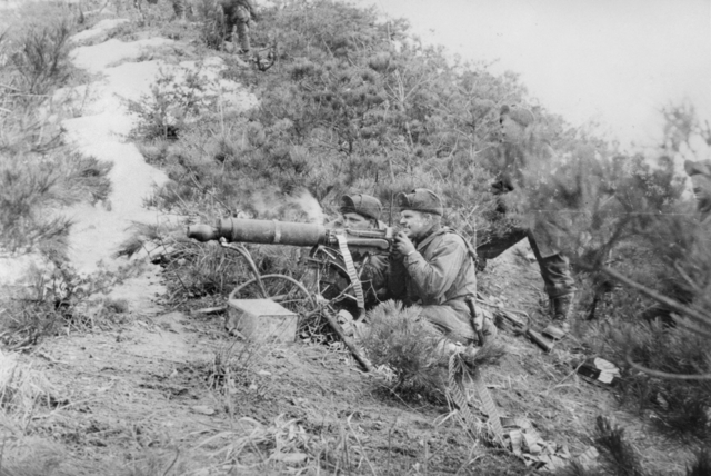 An Australian soldier manning a Vickers machine gun during the Korean War.